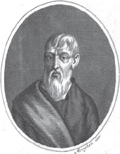 Herodicus, physician of the fifth century BC